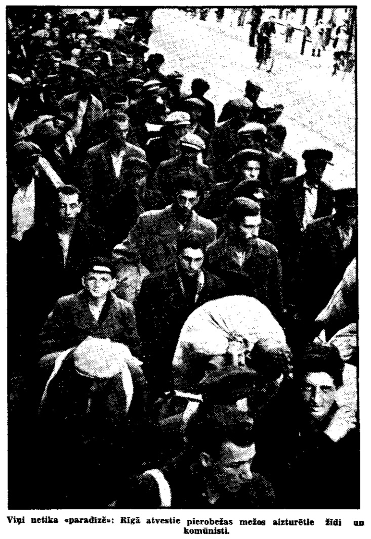 Image shows people identified as Jews and communists being arrested. The caption in Latvian appears to be a mocking reference to the "Jewish paradise". Published in Tēlgava, a newspaper under Nazi control.